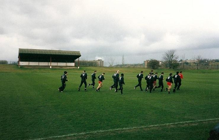 Manchester United's players warming up before training, at The Cliff in 1992. Giggs/Ince in the back. Schmeichel in the middle with blonde hair.